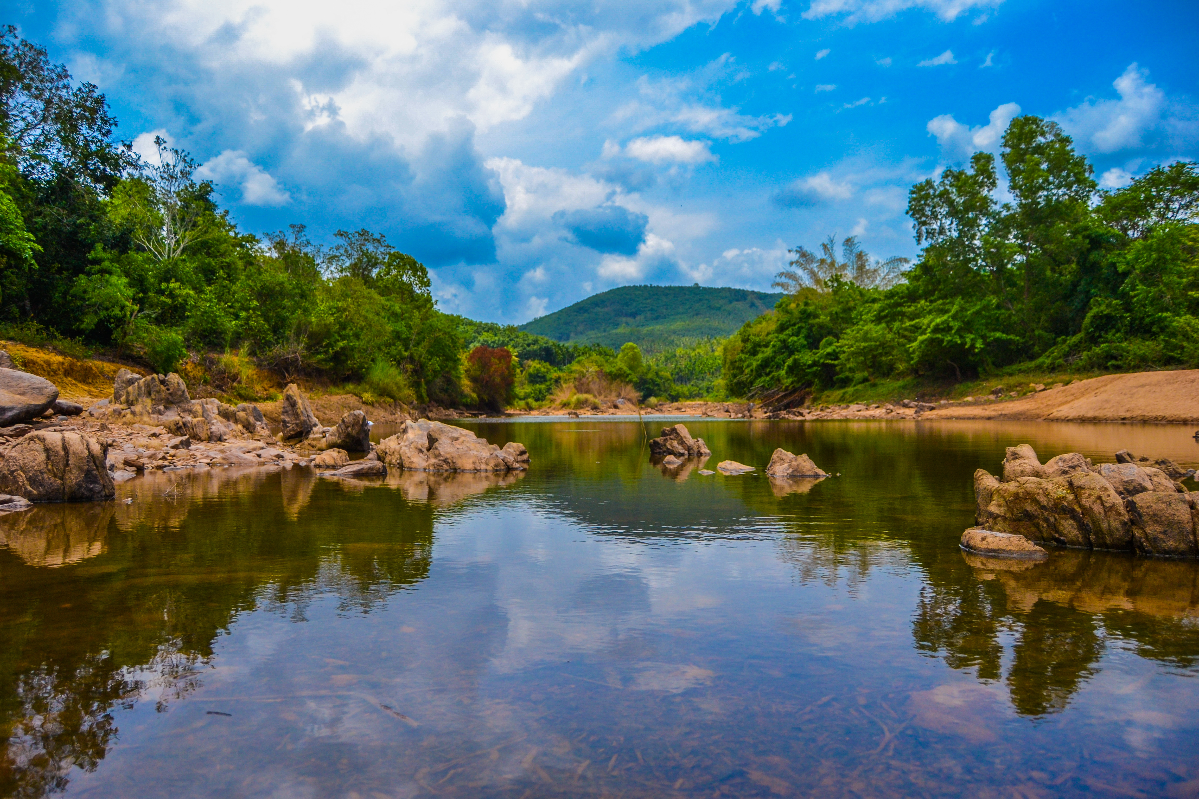 This is an Image of Chandragiri River , taken at Kanathur, in Kasaragod District of Kerala. The area comes under the Protected forests( Reserve) region.